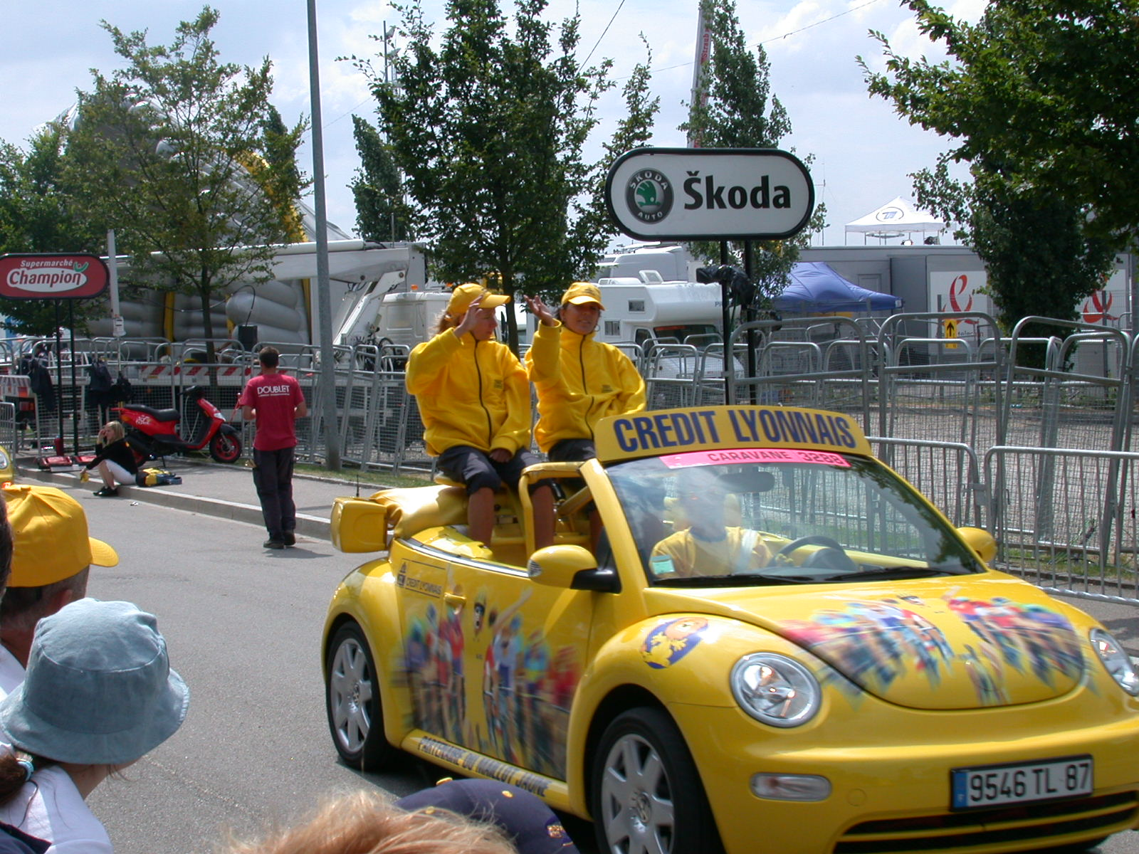 Description: Caravana do Tour, Mulhouse 2005 Credits: User:Mschlindwein Licence